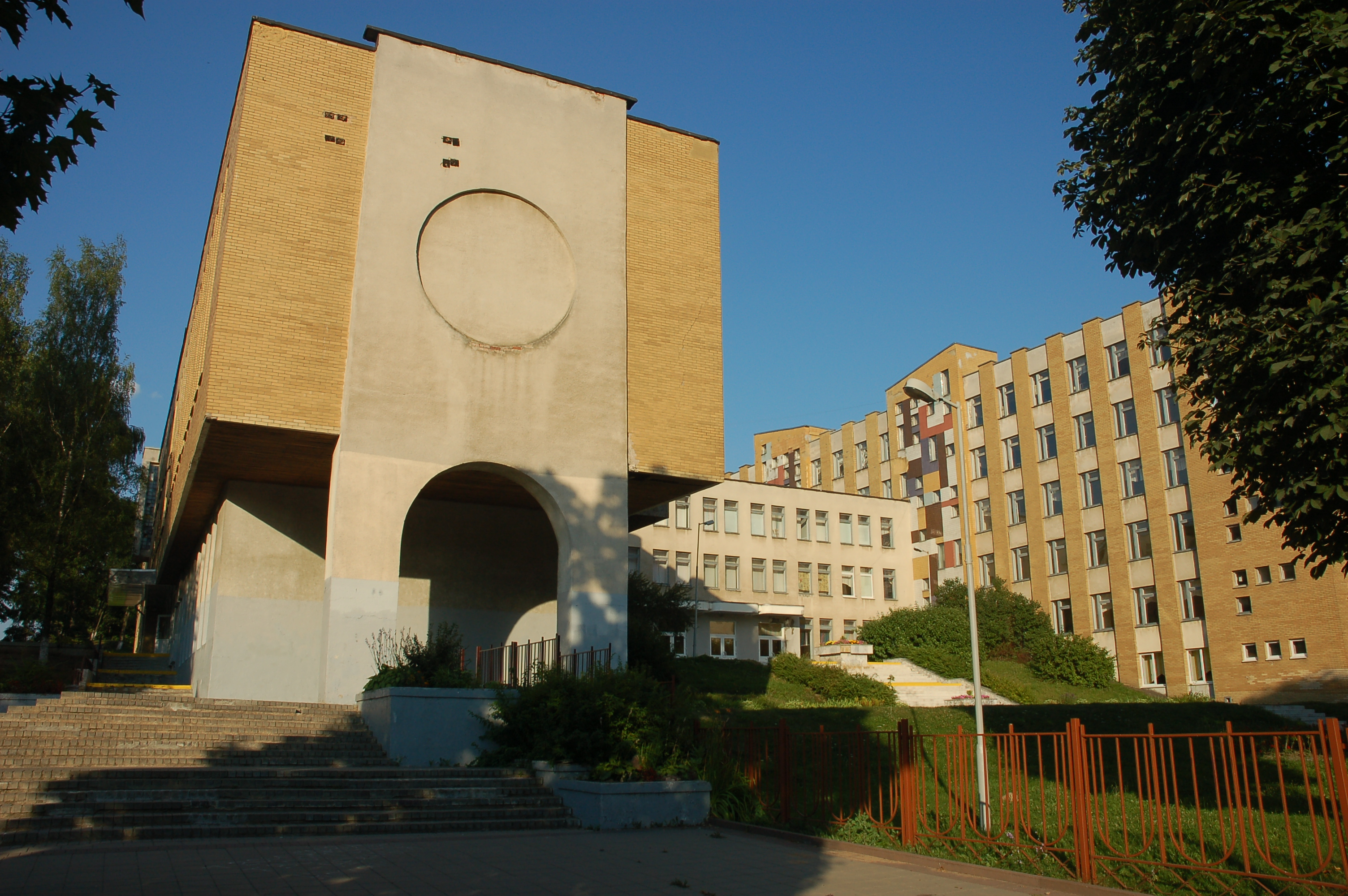 Minsk, 58 Zakharava Street